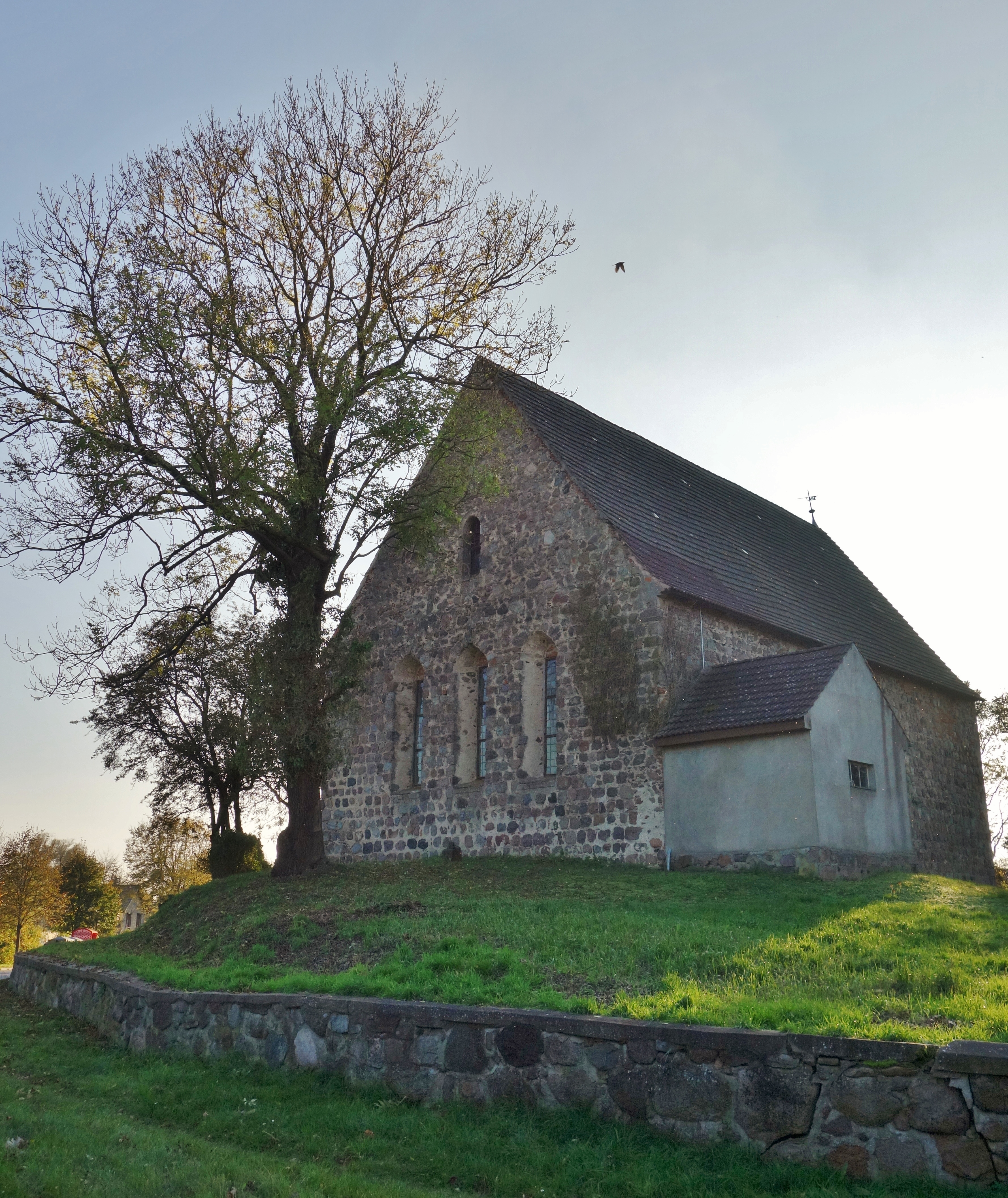 North-eastern view of church in Mittenwalde, Mittenwalde municipality, Uckermark district, Brandenburg state, Germany